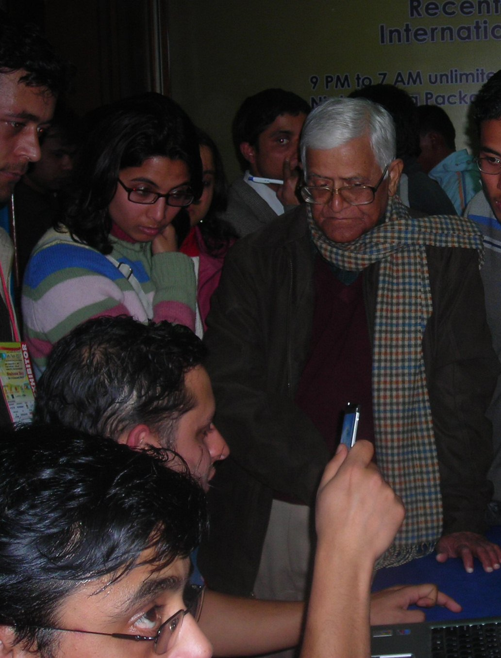 Bishwanath Upadhyaya is former Chief Justice and chief comissioner of the Constutitution Commission in 1990